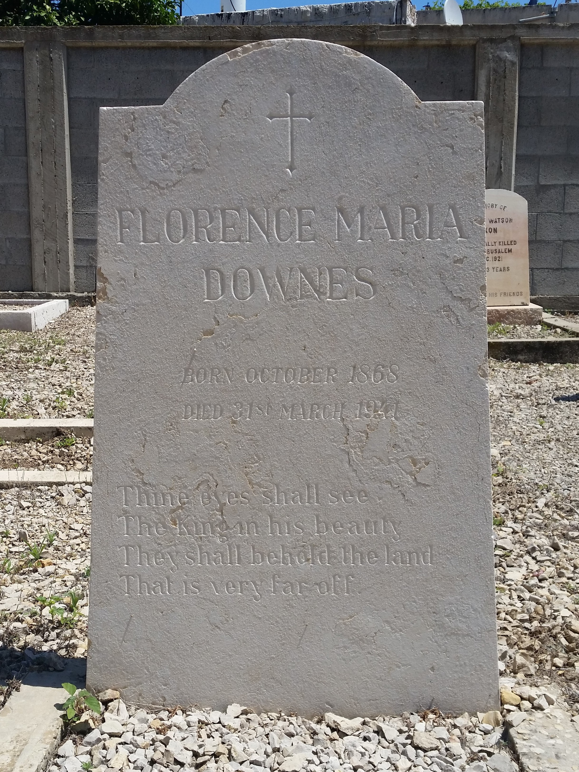 Lady Florence Downes grave in Haifa Anglican Cemetery, Israel.